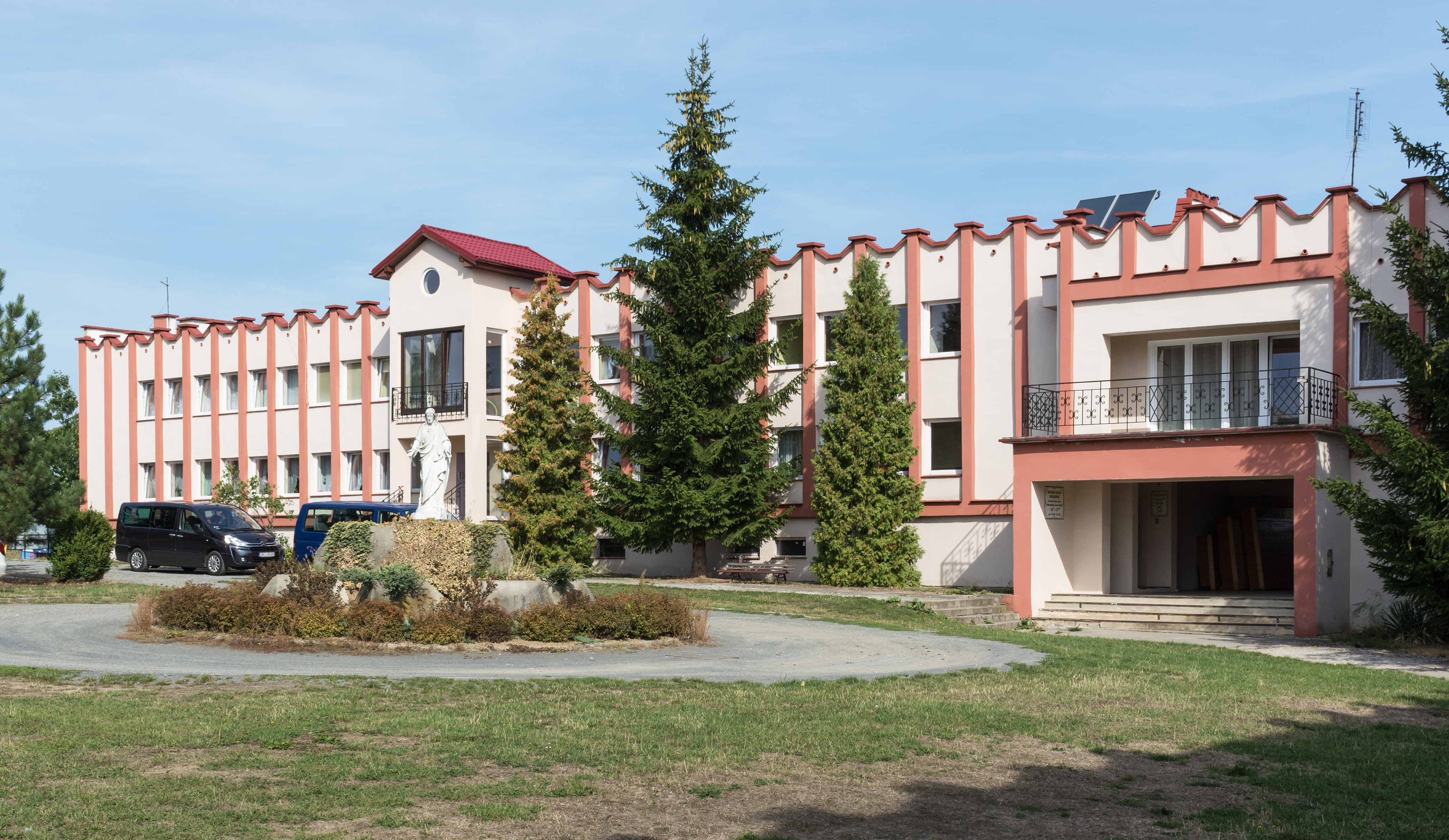 Deanery Kłodzko head